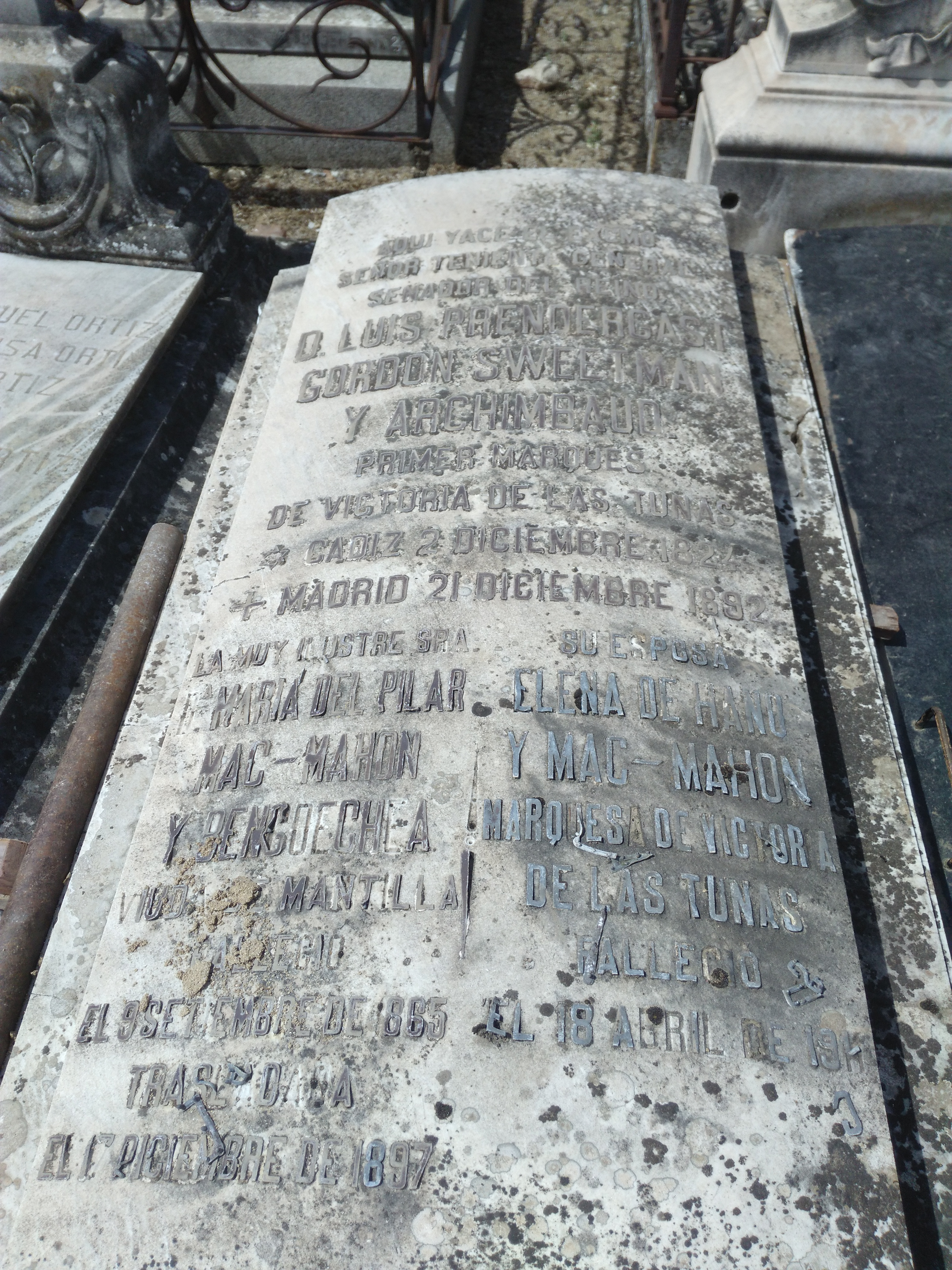 San Isidro Cemetery, Madrid.